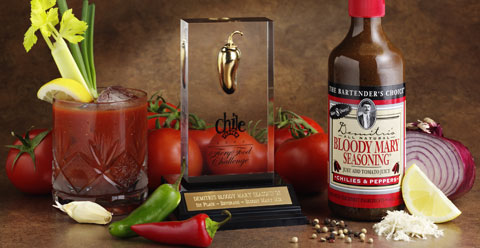 Demitri's group product with Award.